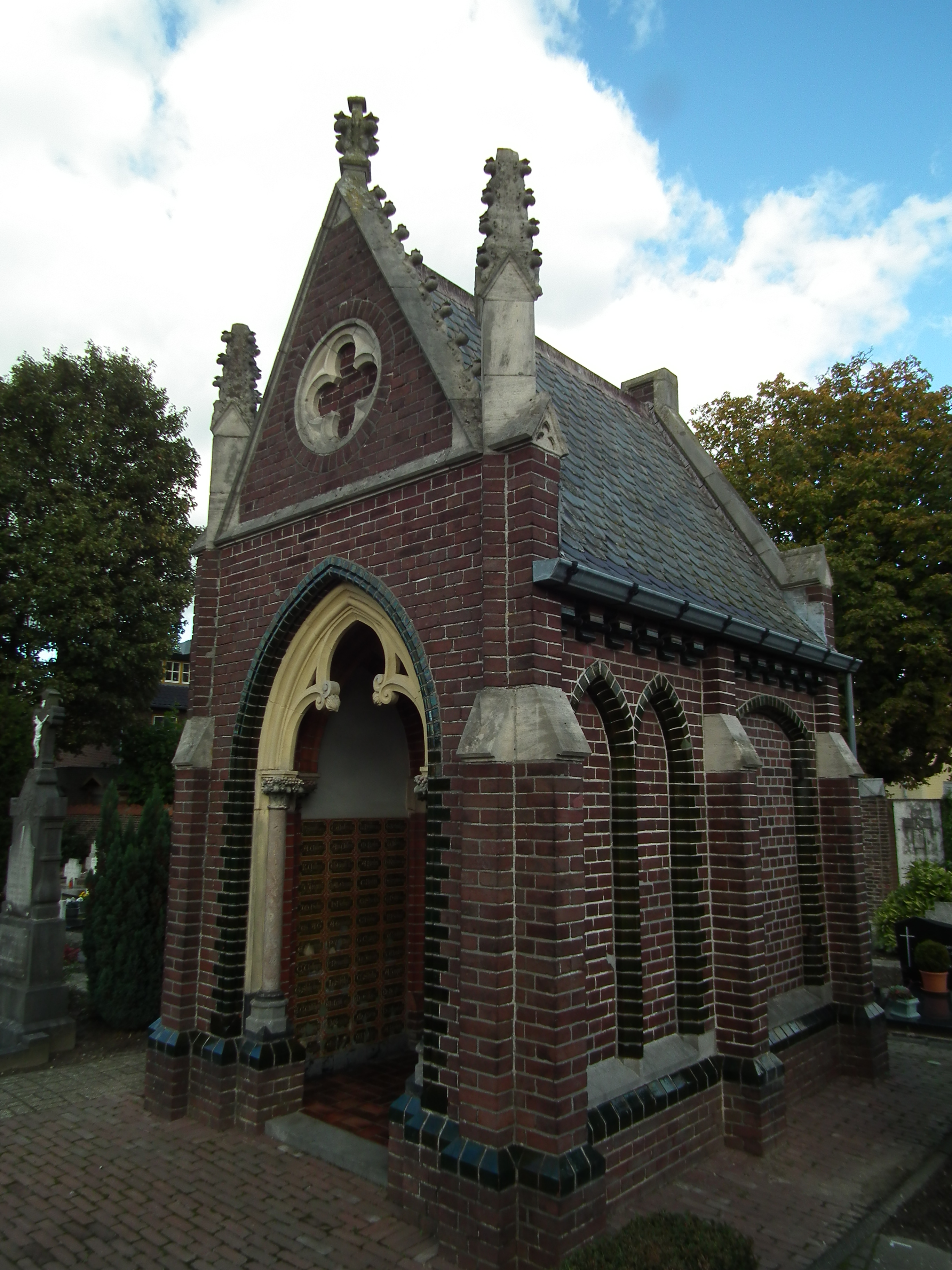 Chapel on the cemetary of the St. Lambertuschurch in Nederweert.